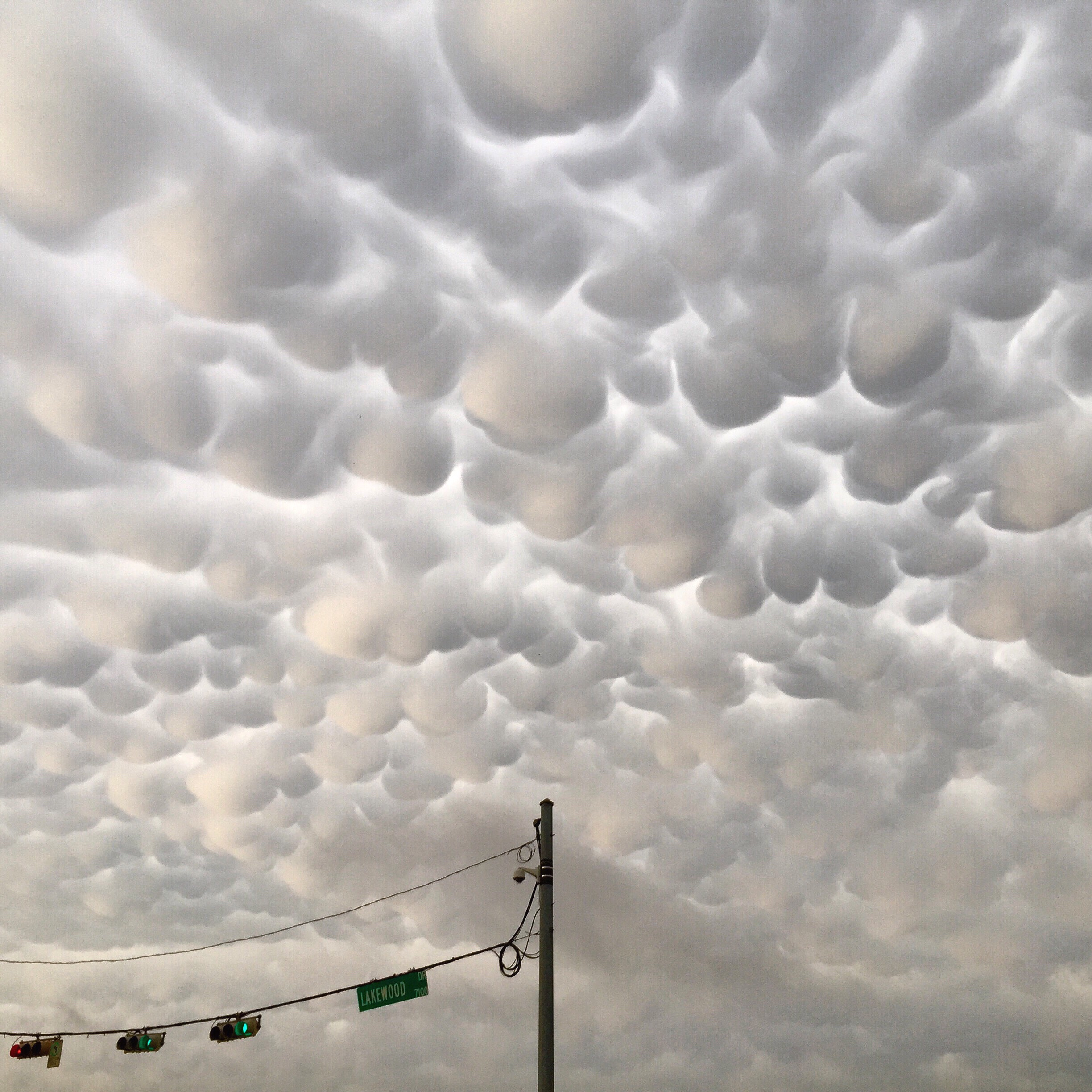 These clouds formed quickly over Bull Creek park after the intense wave of Memorial Day storms in Austin. These are usually associated with tornadoes, which had occurred earlier in the day.